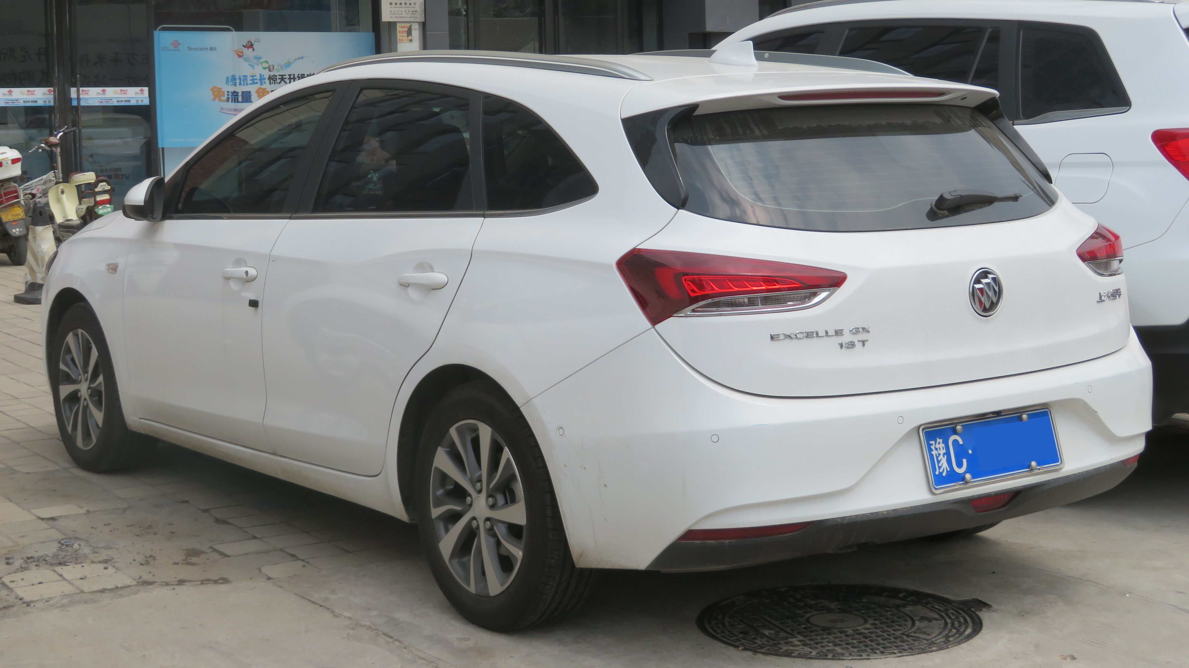 Photographed in Luoyang, Henan province, China